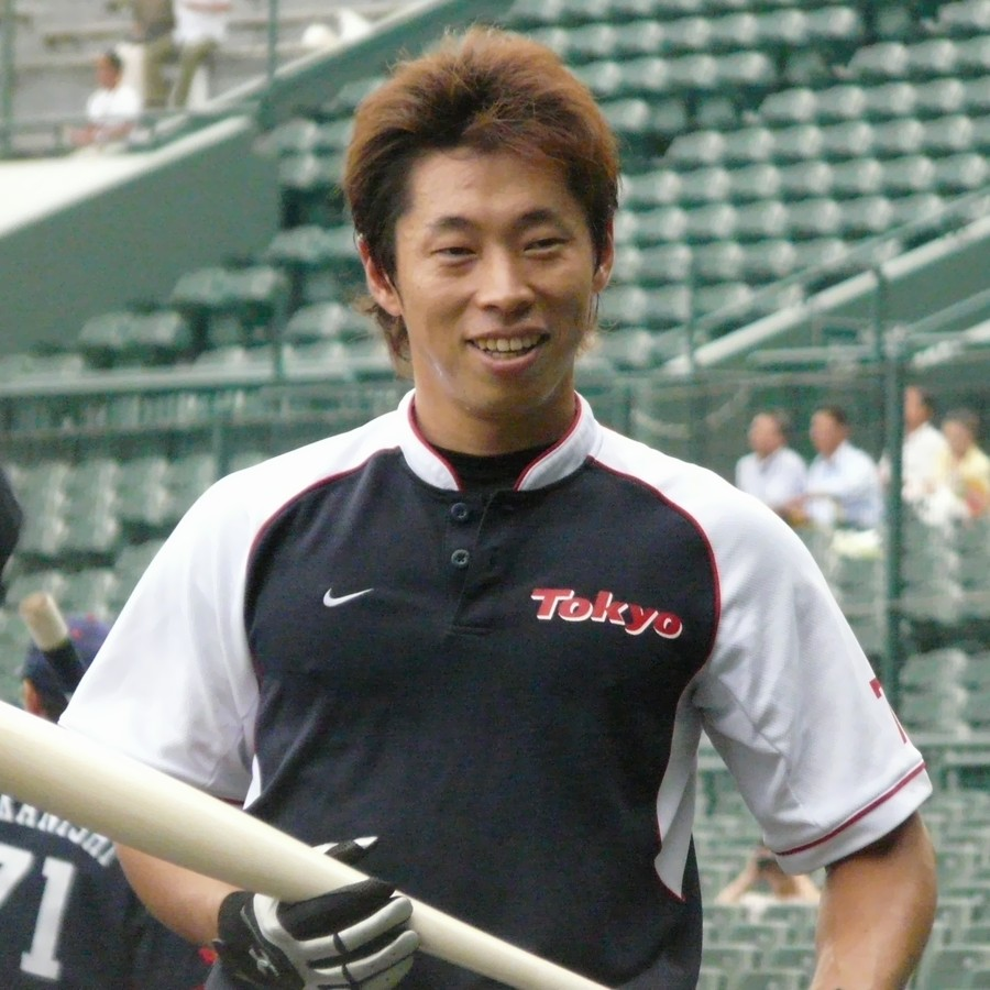 Hiroyasu Tanaka, infielder of the Tokyo Yakult Swallows, at Hanshin Koshien Stadium.